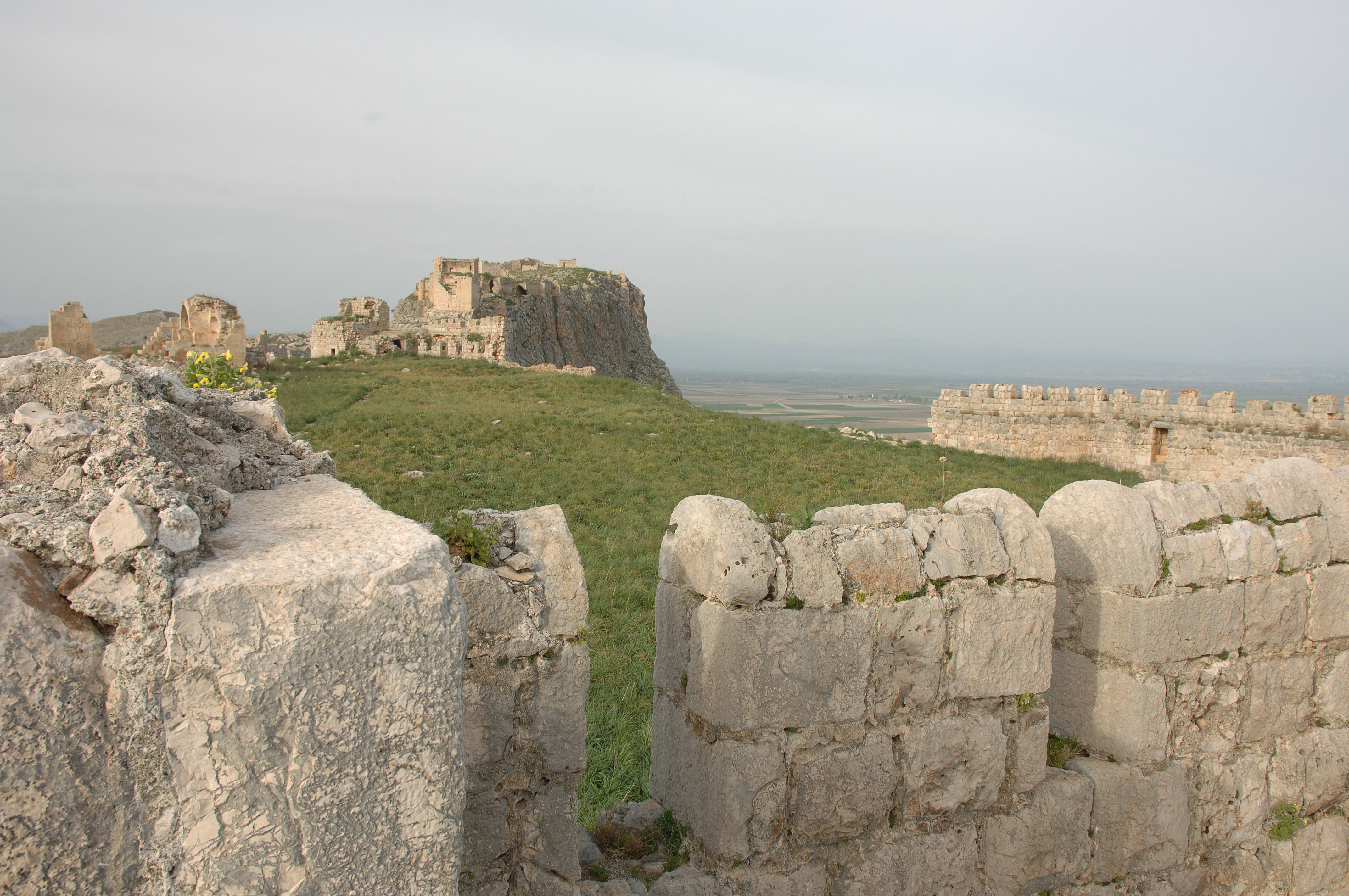 In the foreground: A segment of the walls of Anavarza’s upper city (on top of the mountain ridge). Byzantine-Armenian work (but predominantly Armenian) from the 12th and 13th centuries. They enclosed a space called ‘basse cour’ (French for ‘Lower courtyard’, meaning the outer bailey), which measures about 370 x 210 m. In the background: The inner fortress (or keep) lies to the north, is about 270 x 60 m large and is separated from the outer bailey by a ravine, that was defended by an impressive bastion. One of a series of pictures taken during a visit from end to end. The location is imported later, and only at some pictures, I use the centre of a picture as the spot to locate, and not the spot where a picture was taken (the more usual method). Descriptions are based on sources such as: ‘Guides Bleus: Turquie’ – Edition 1986 , ‘Guide Fodor: Turquie’ - Edition 1988 & Personal Visits (by a correspondent of the author in 1985-1999).